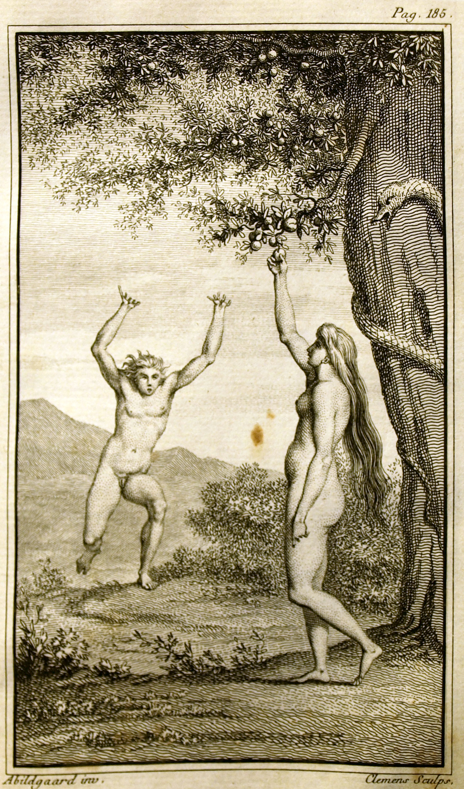 Illustration from Johannes Ewalds "Adam & Eve". Drawing by N.A. Abildgaard, engraving by J.F. Clemens.